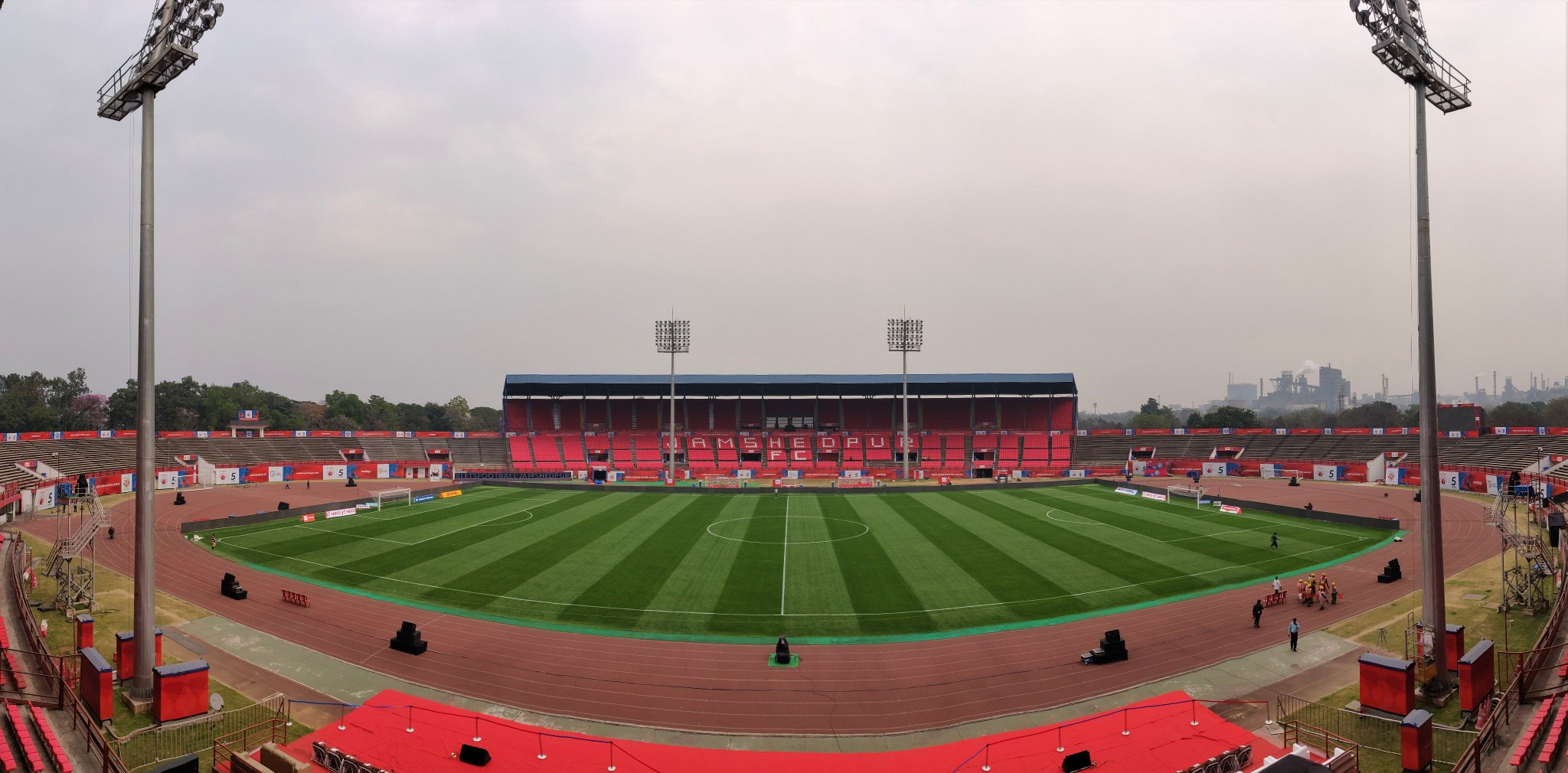 This photo describe stadium that located in Jamshedpur